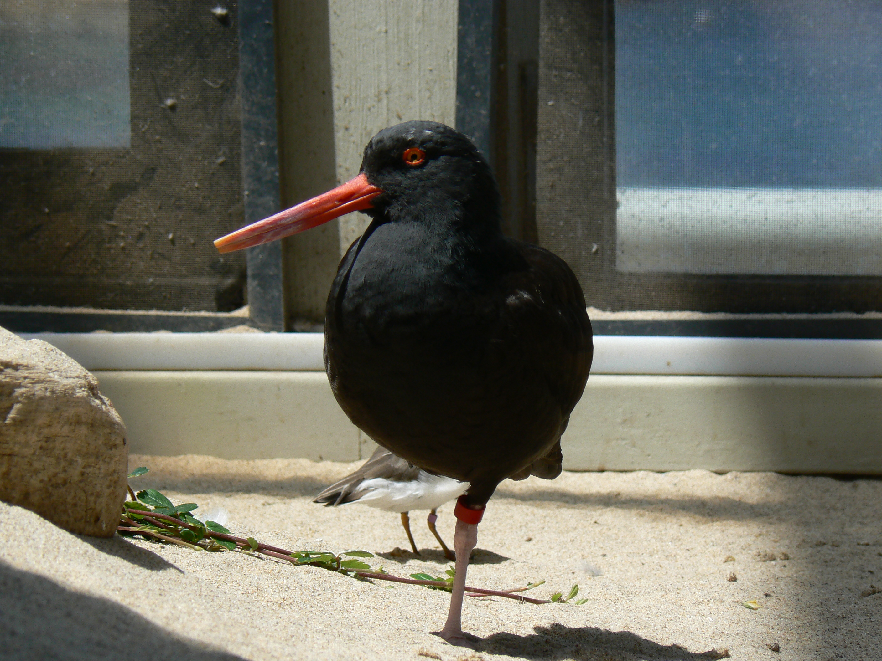 A Black Oystercatcher at the Monterey Bay Aquarium.